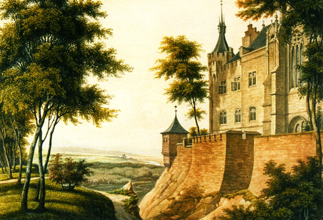 The Marienburg near Nordstemmen about 1864. Watercolor.